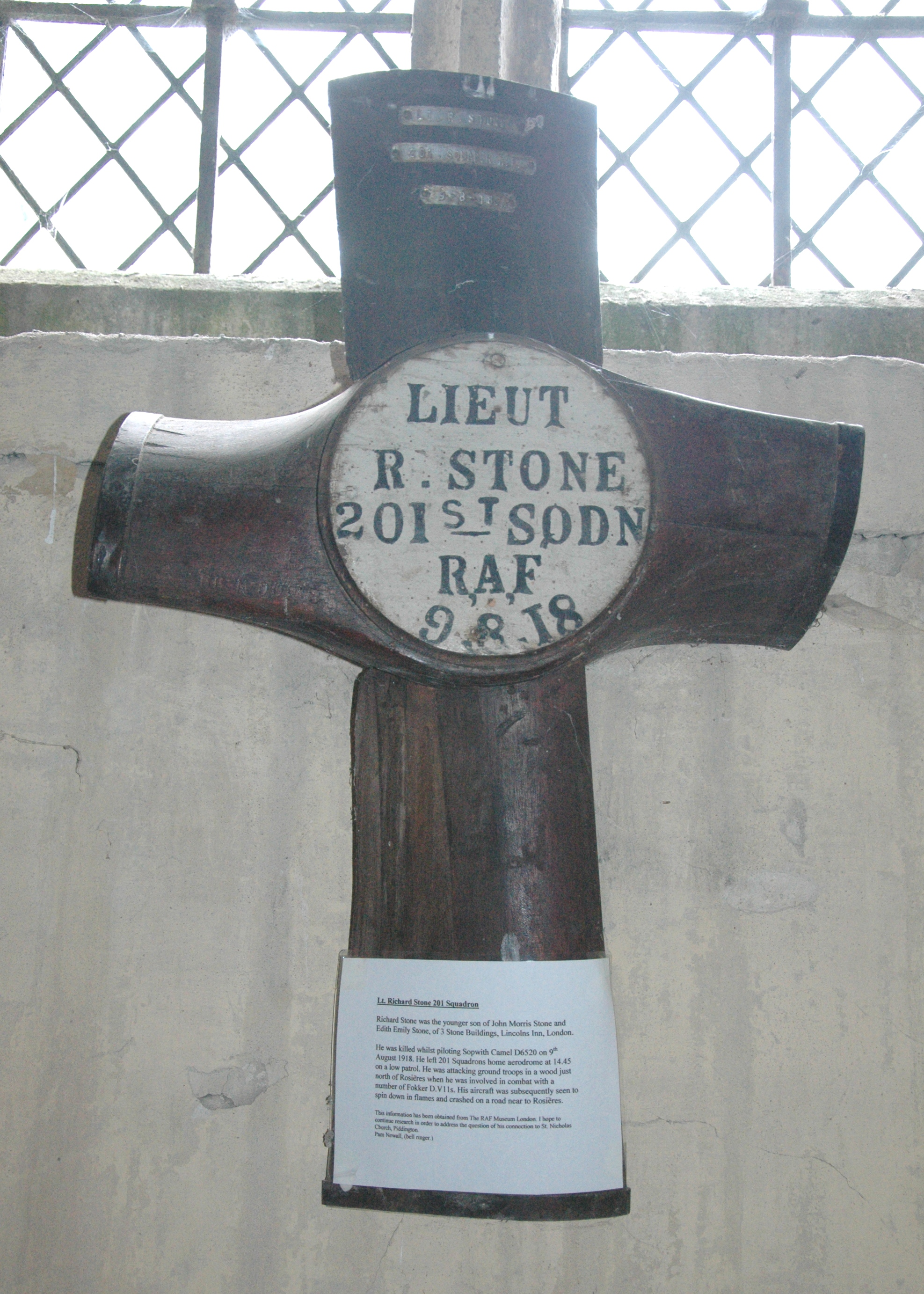 Church of England parish church of St Nicholas, Piddington, Oxfordshire: monument to Lt Richard Stone, 201 Squadron RAF, killed in France 9 August 1918.